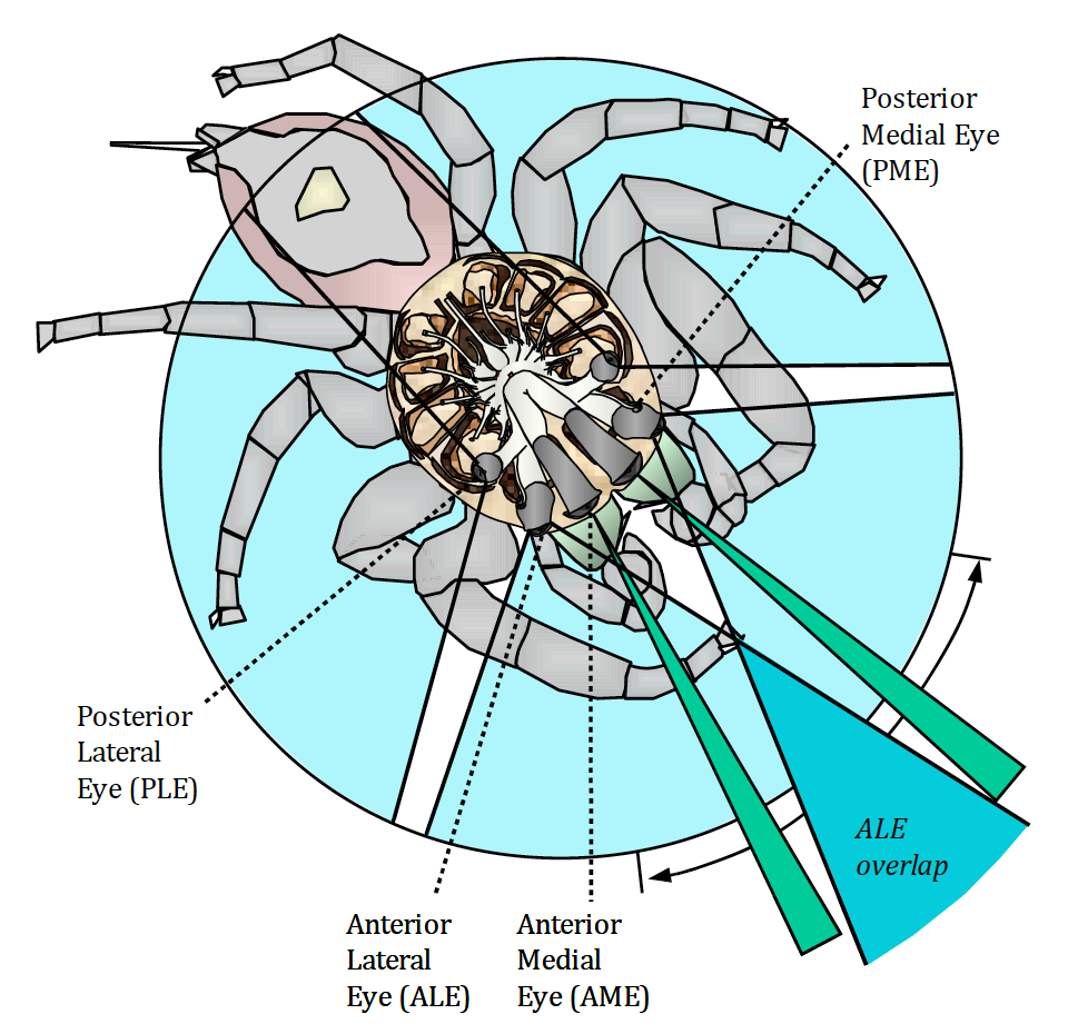 Diagram of the visual fields of the spider as viewed from above. The function of the small posterior medial eyes (PME) is not known.